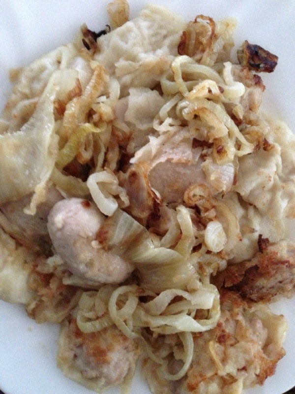 Lamb testicles fried in thin batter with onion rings